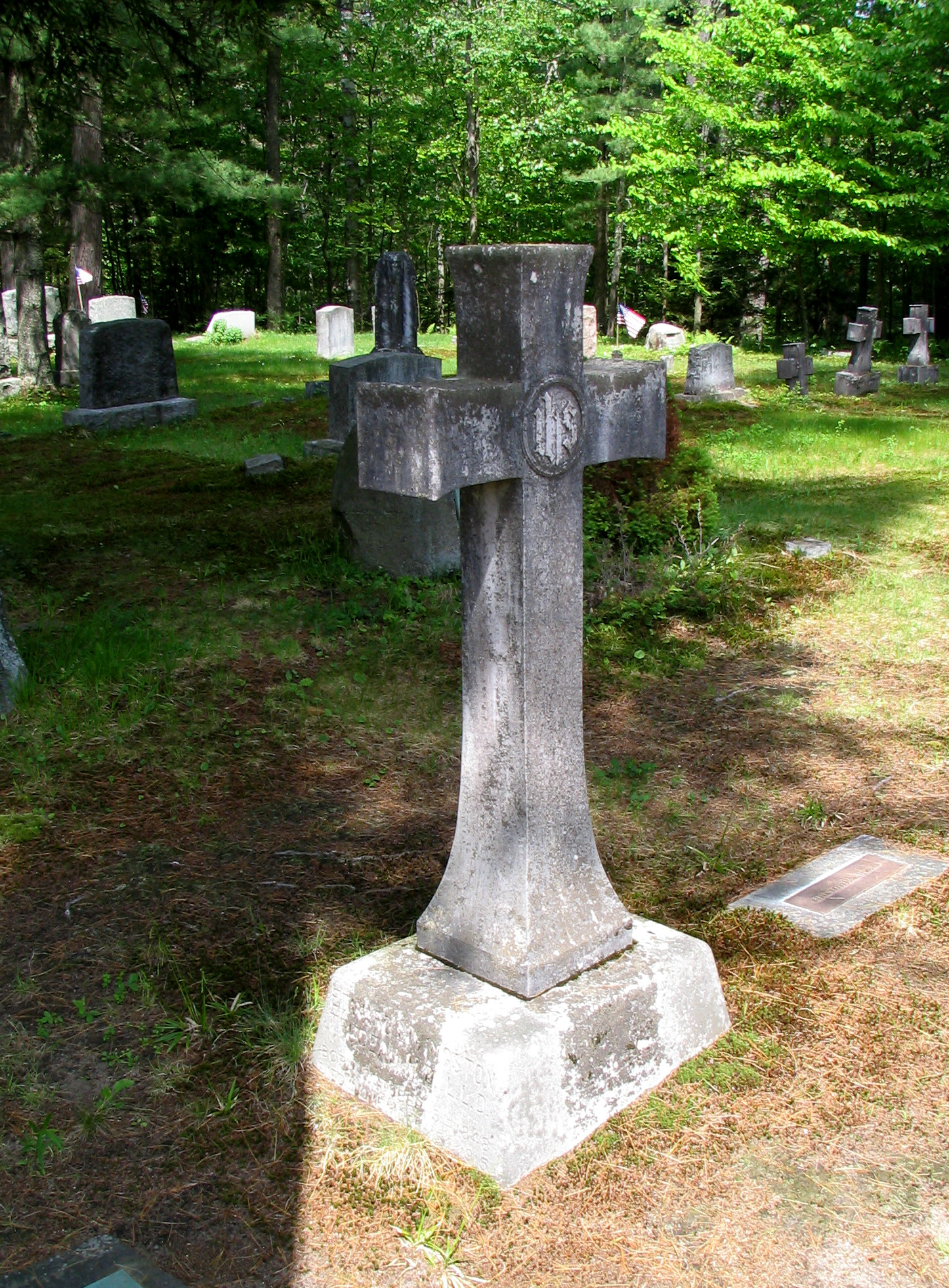 Dr E L Trudeau gravestone, Paul Smiths, New York